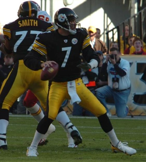 Ben Roethlisberger of the Pittsbrgh Steelers during an NFL game in 2006.